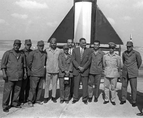 Egyptian al-Kaher-2 rocket